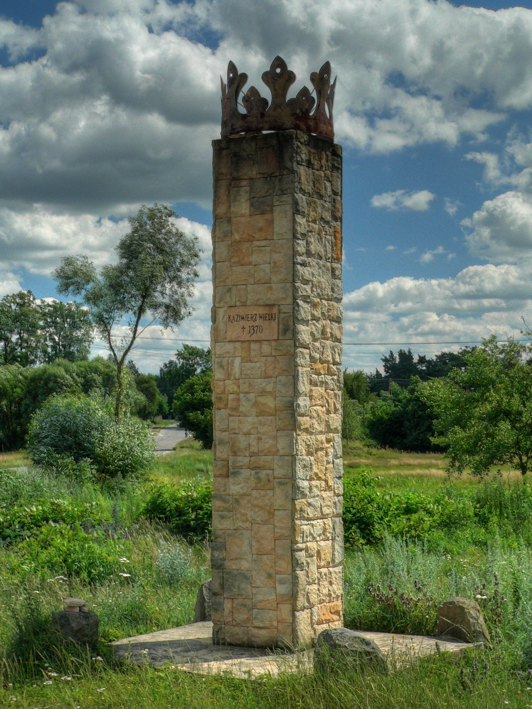 An obelisk in Żeleźnica, erected at the place where the king of Poland, Casimir III fell from his horse, what soon led to his death in 1370.